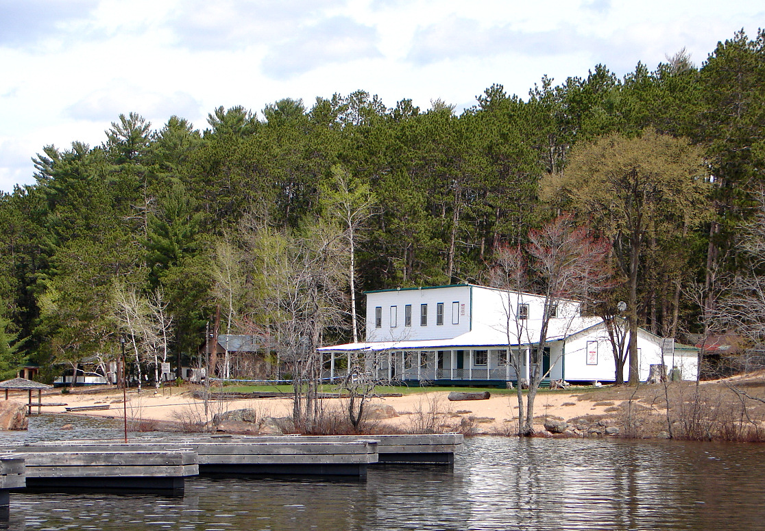 Fort William in Sheenboro, Quebec, Canada